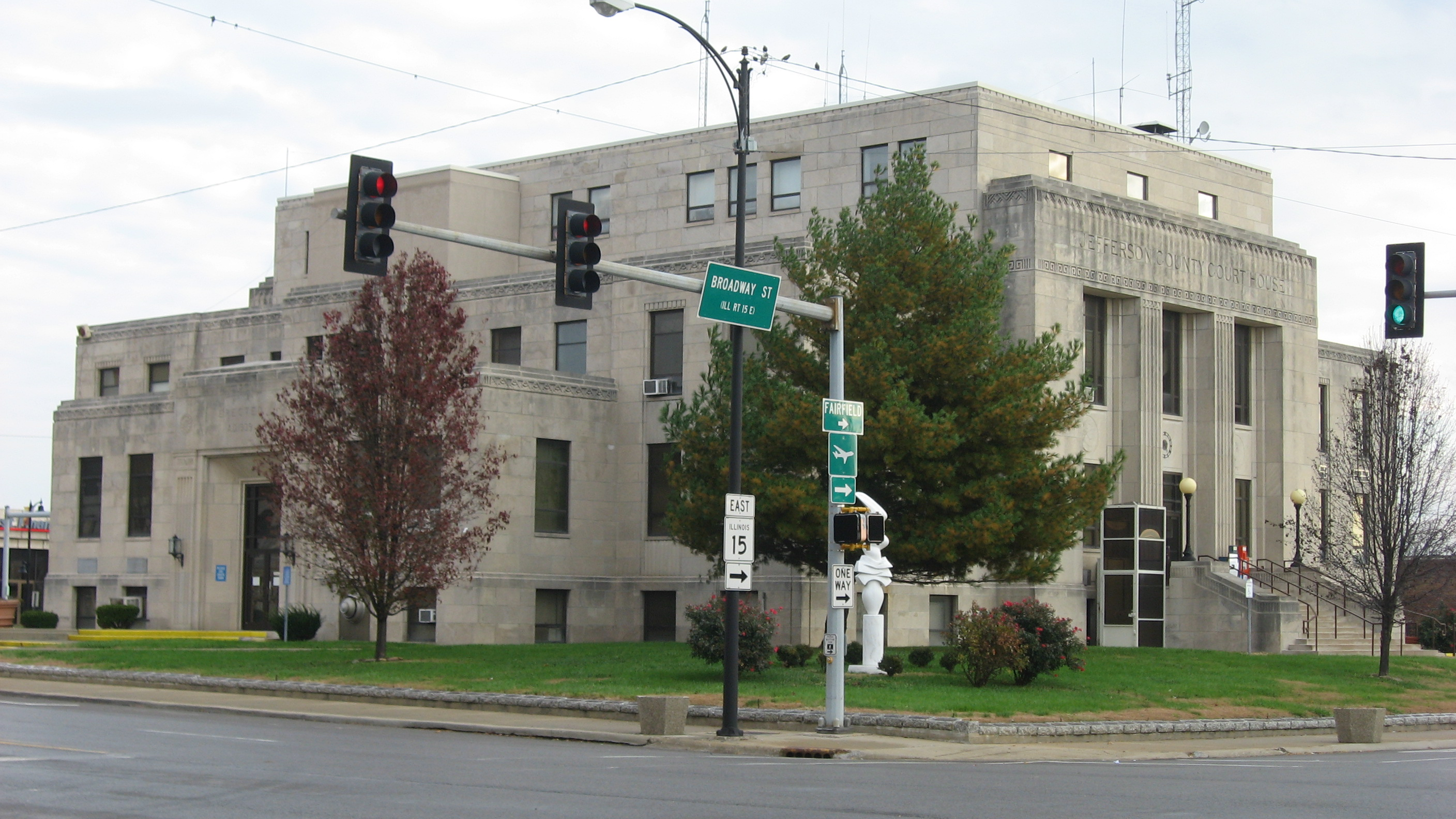 Western side and front of the Jefferson County Courthouse, located on Courthouse Square surrounded by Tenth (Illinois Route 37), Ninth, and Broadway and Main (Illinois Route 15) Streets in Mount Vernon, Illinois, United States. It was built in 1941.